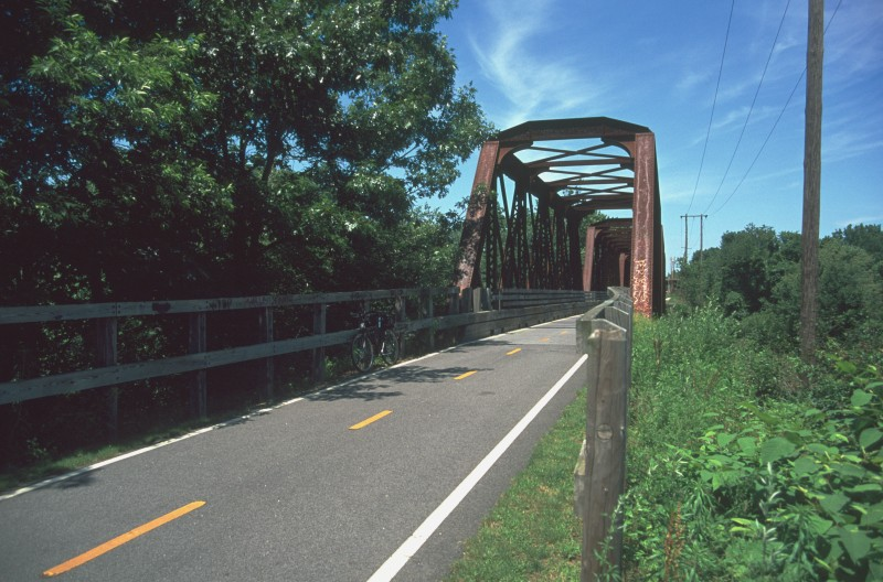 Bridge leading the Washington Secondary Trail over the South Branch of the Pawtuxet River in West Warwick, Rhode Island